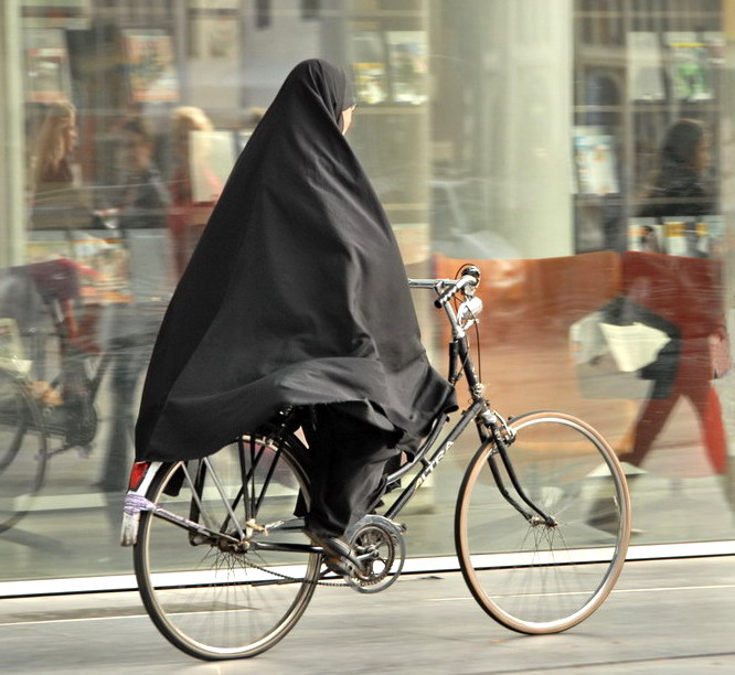 Woman cycling in a khimar in The Hague, Netherlands on a Dutch bike.